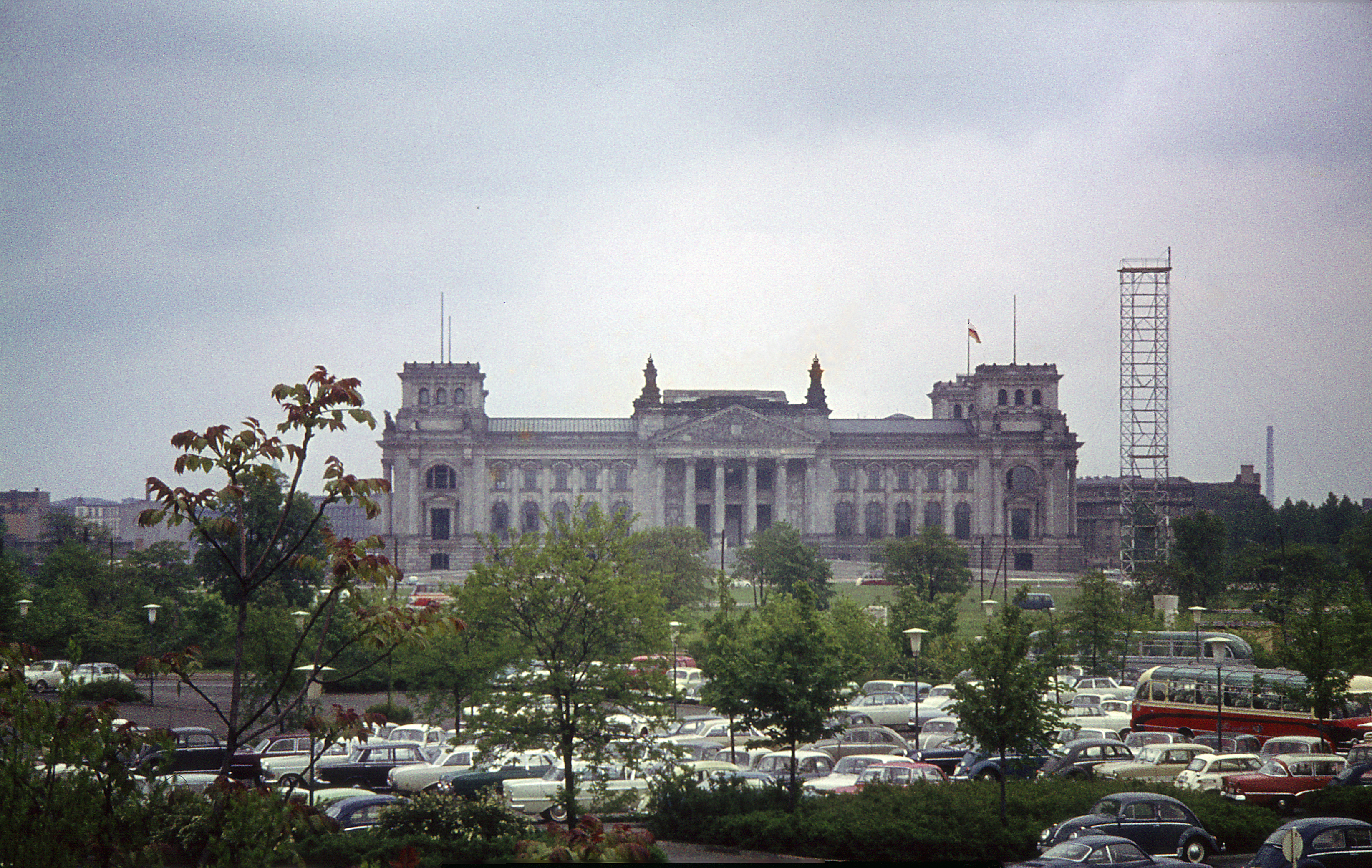 The Reichstag building at Berlin in 1964, cupola not restored